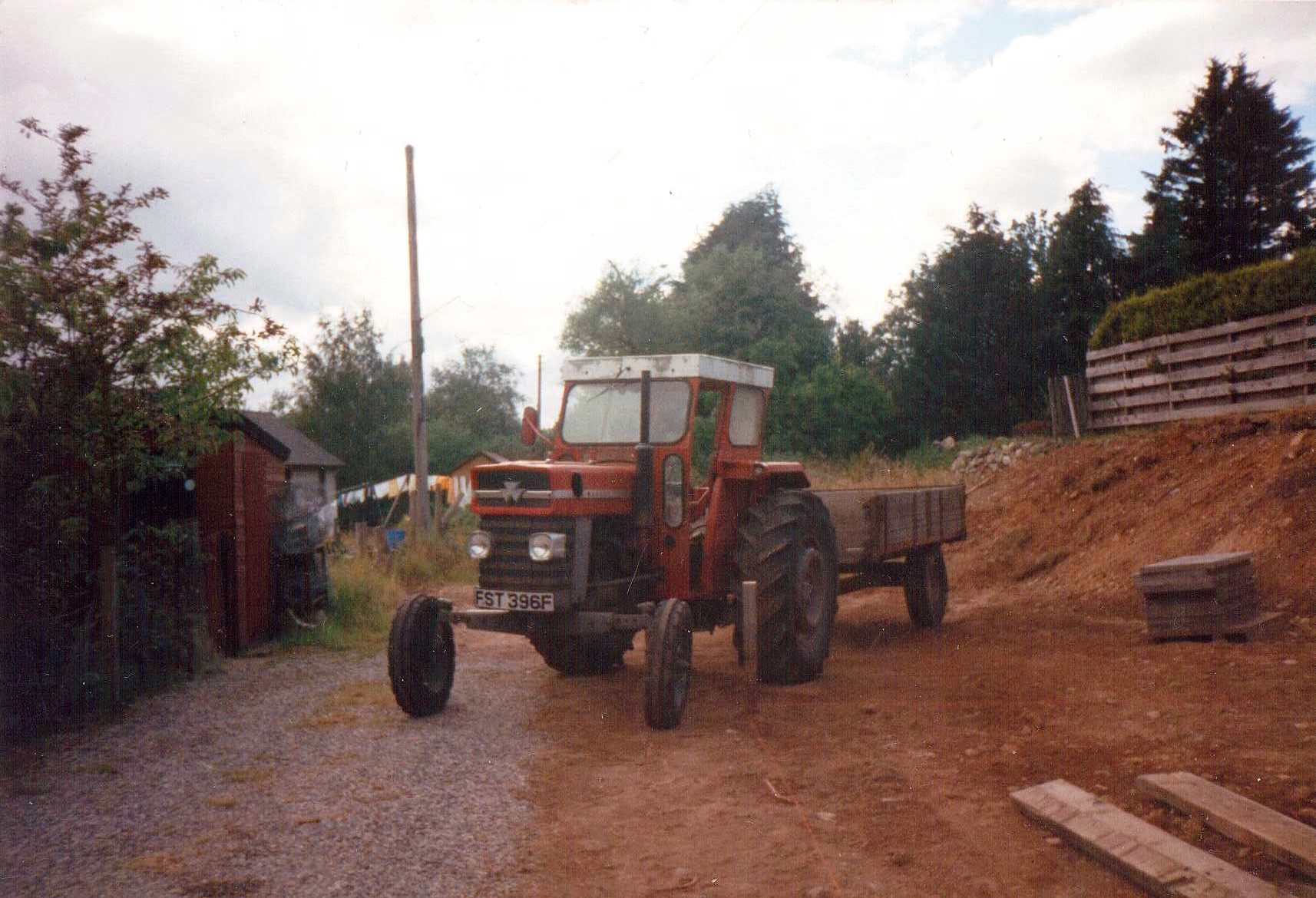 Farm tractor in Balnain.